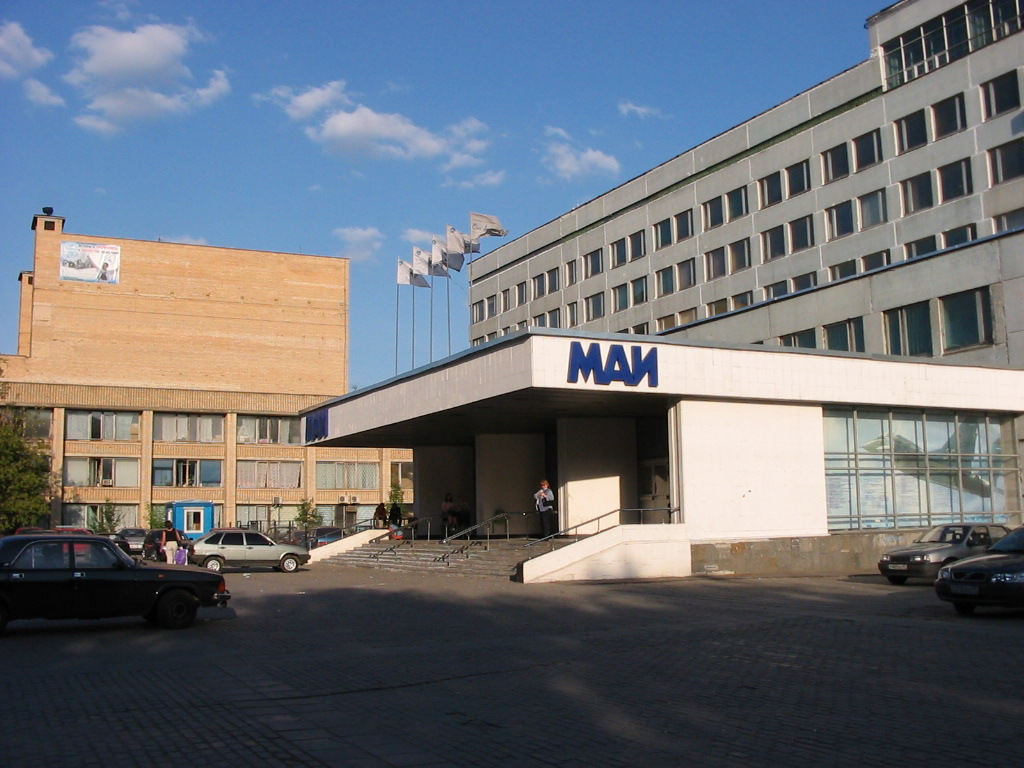 Moscow Aviation Institute - MAI